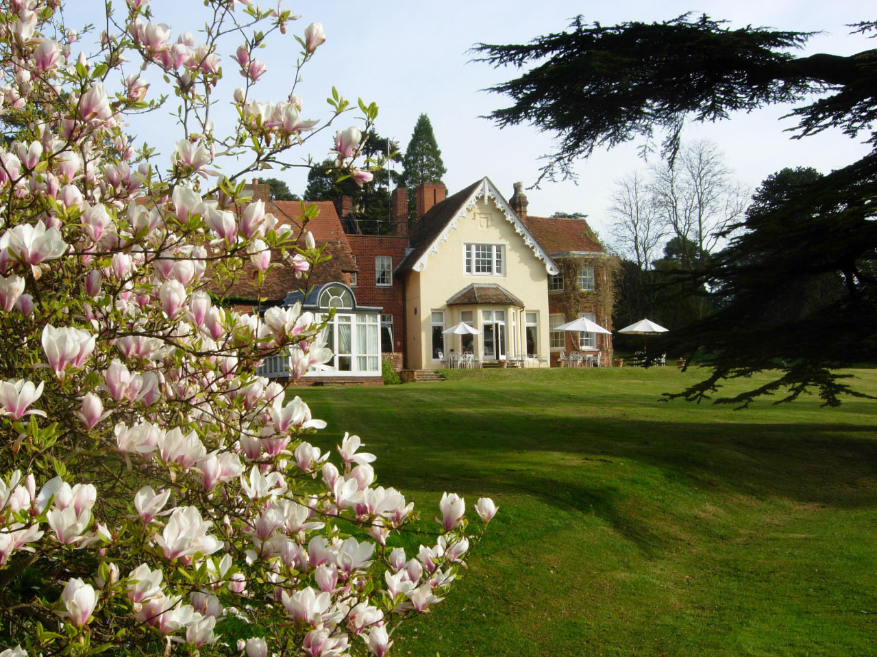 Flitwick Manor , near to Flitwick, Bedfordshire, Great Britain. A magnificent display of magnolia blossom enhances the extensive grounds of this Georgian manor house, now a hotel.